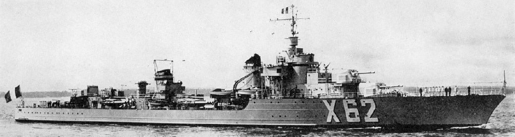 The French destroyer Volta underway off Portsmouth, England (UK), on 8 August 1939, with French Amiral de la flotte (Admiral of the Fleet) Jean François Darlan embarked. He came to England to confer with British officers concerning Naval dispositions for a prospective war with Germany. Flying from Volta's masthead is Darlan's Amiral de la flotte flag, the French tricolor with crossed anchors in the center.